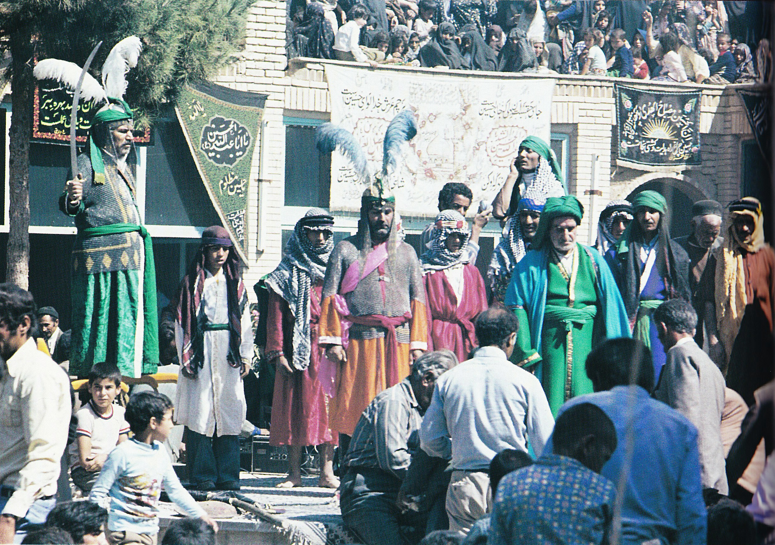 Taazieh performance, Shiraz art festival